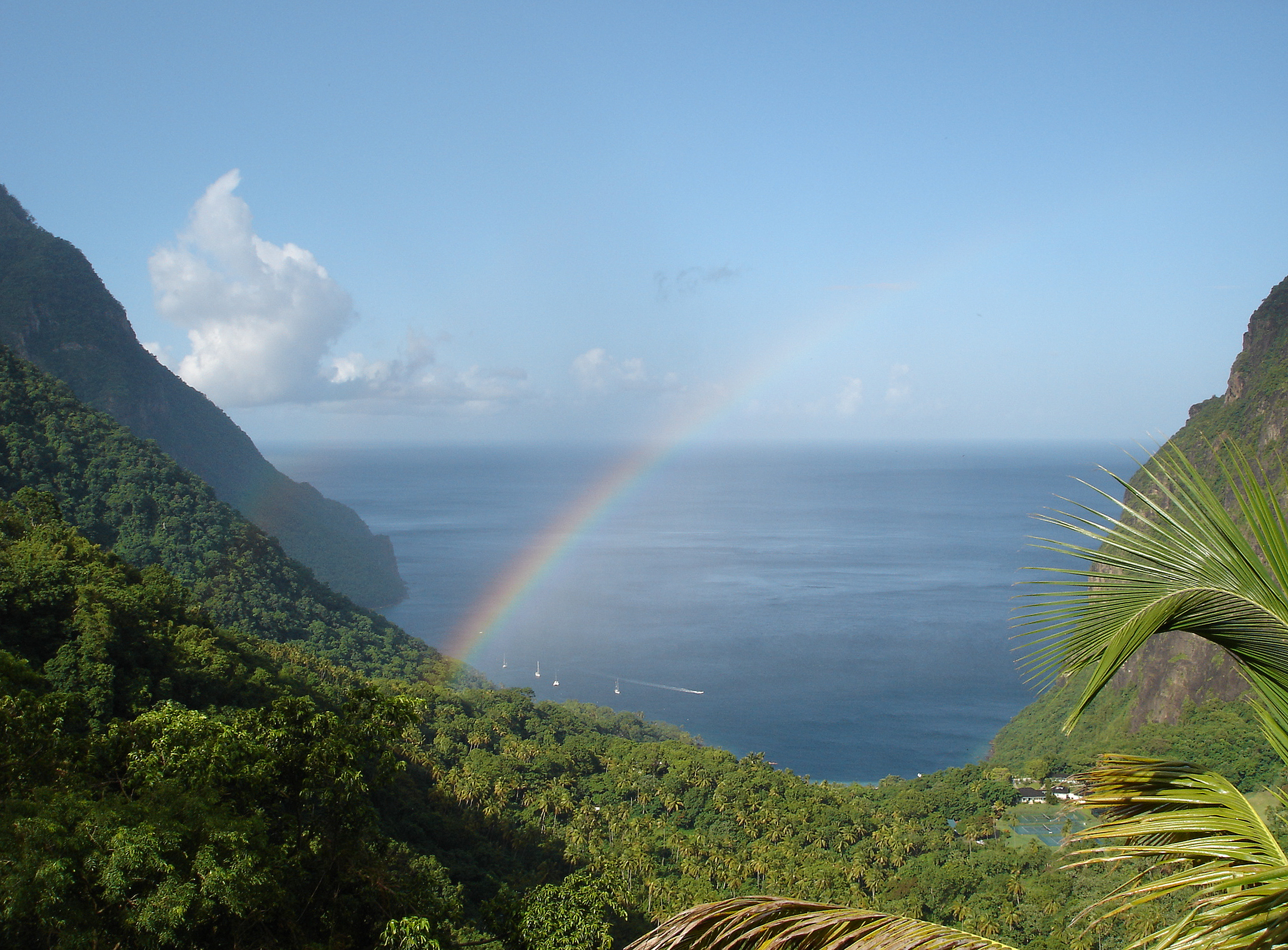 Piton Valley, St. Lucia, seen from the Ladera Hotel restaurant